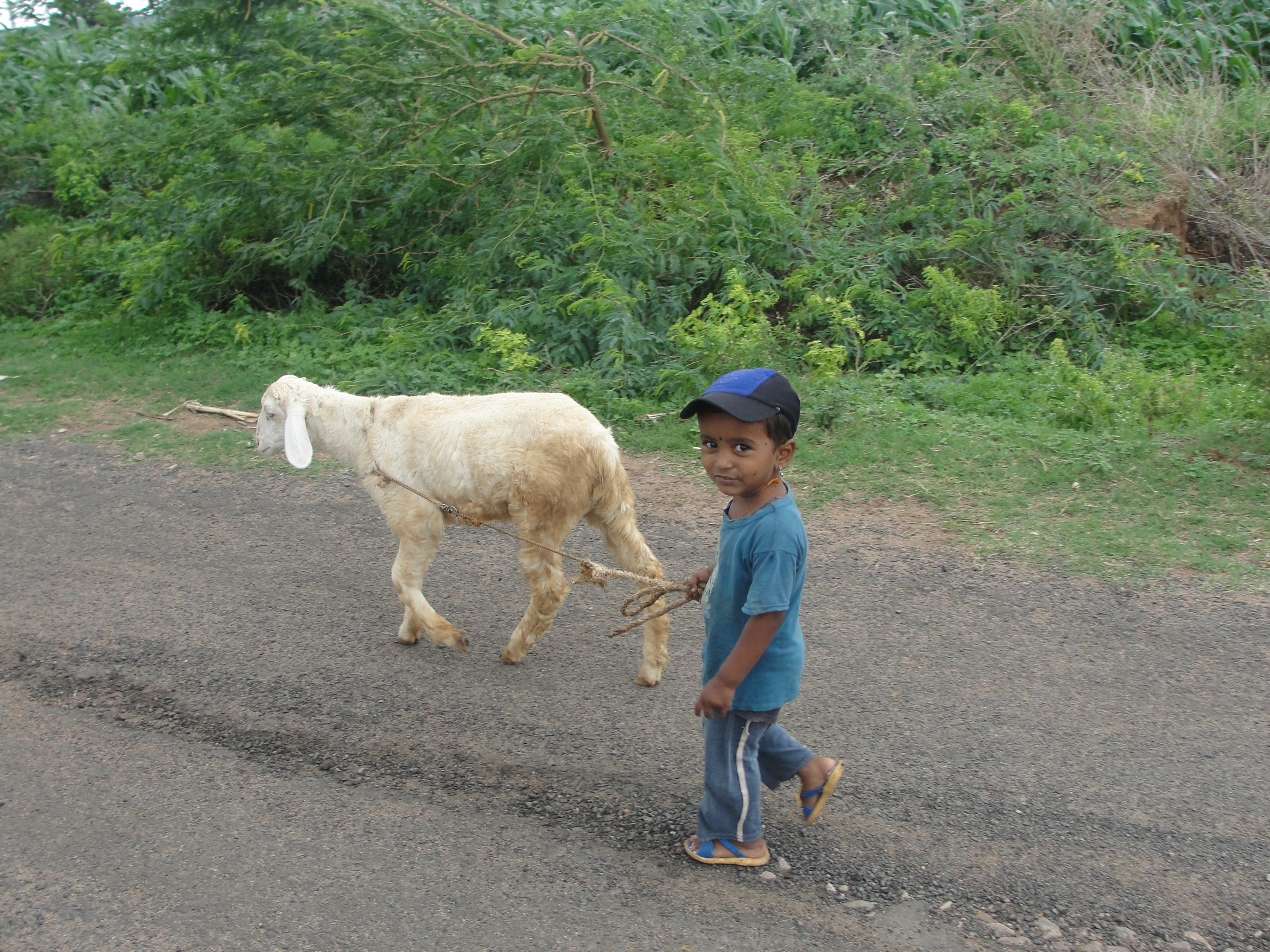 Boy Shepherd from Karnataka,India